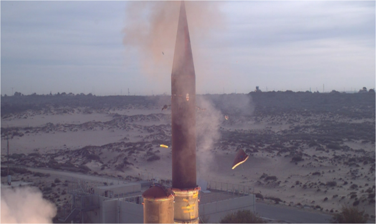 Feb. 25, 2013 - The Israel Missile Defense Organization (IMDO) and the U.S. Missile Defense Agency (MDA) completed a successful flight test of the Arrow-3 interceptor missile. The Arrow-3 interceptor successfully launched and flew an exo-atmospheric trajectory through space, according to the test plan.